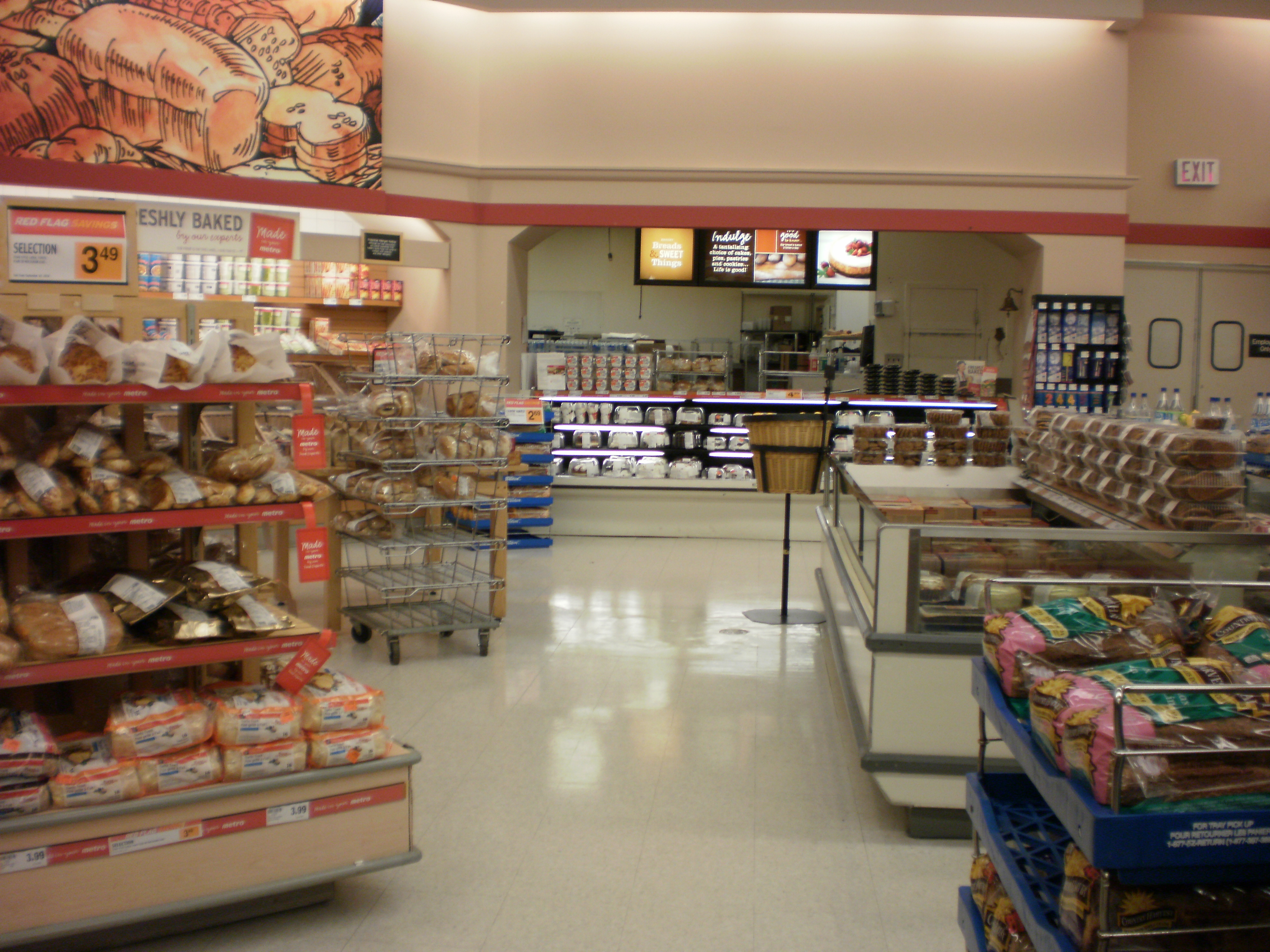 Metro store at the Brampton Mall, formerly an A&P. The store has since undergone renovation.